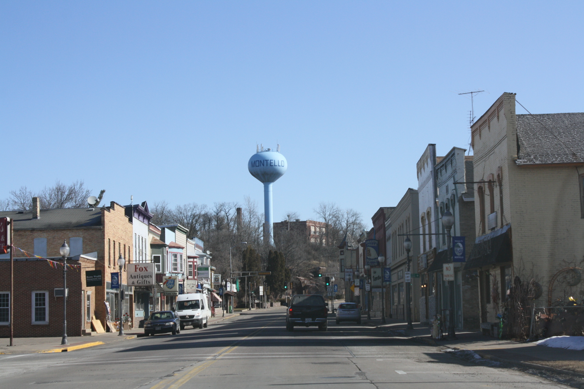 Looking east in downtown Montello, Wisconsin. It is listed on the National Register of Historic Places as the Montello Commercial Historic District.